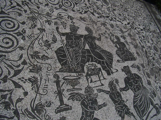 Ostia Antica, Caseggiato di Bacco e Arianna, mosaic